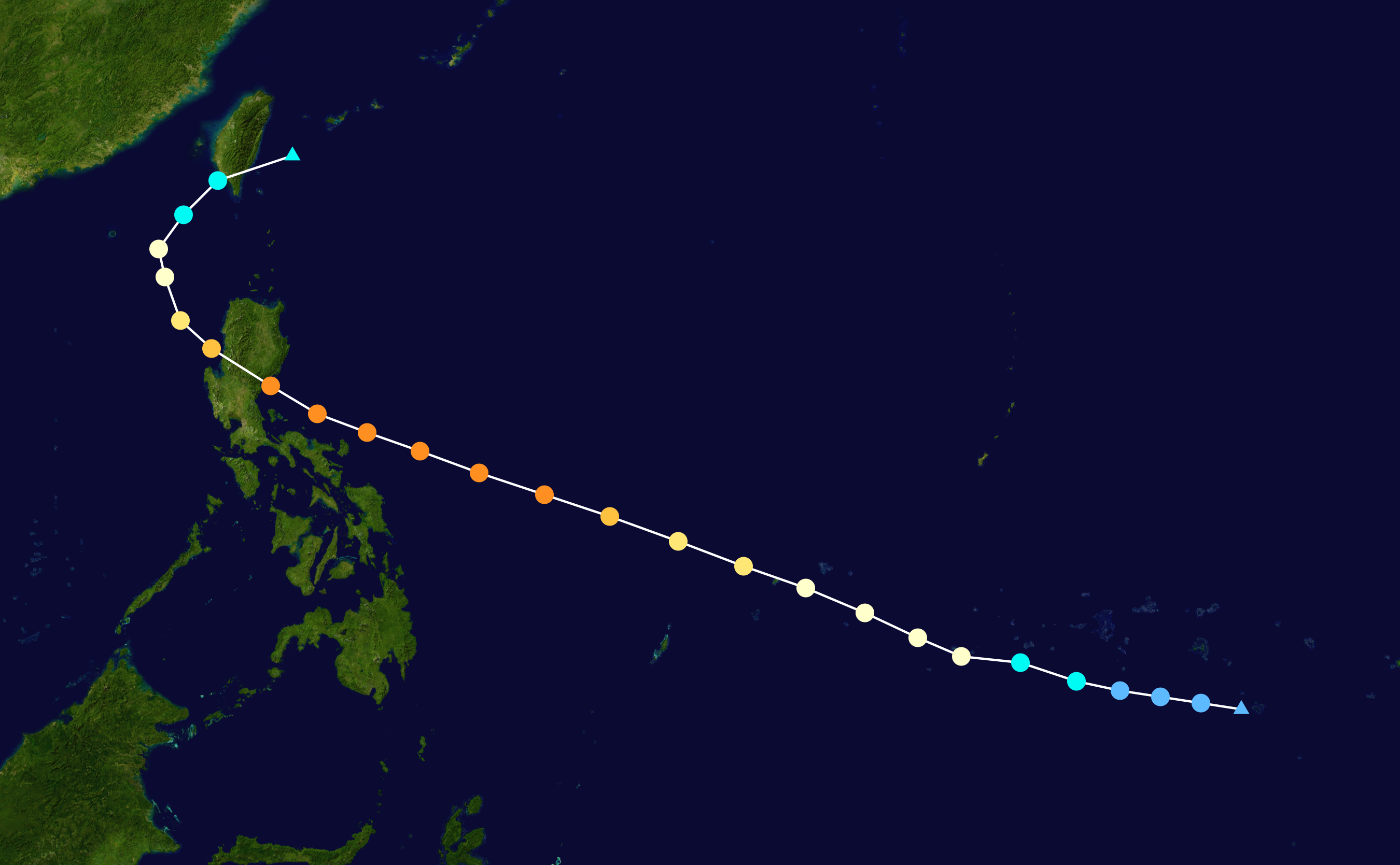 Typhoon Nanmadol (2004) track. Uses the color scheme from the Saffir-Simpson Hurricane Scale.